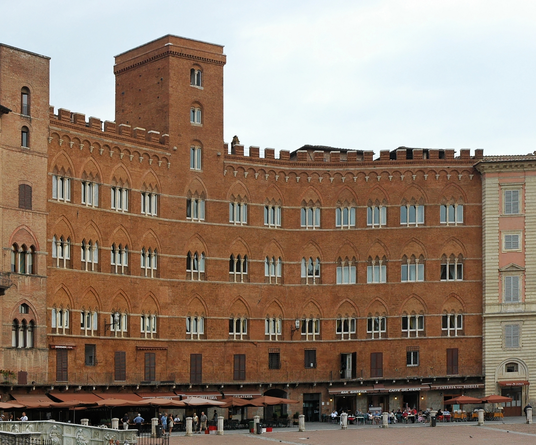 The palazzo Sansedoni (13th–14th century) on the piazza del Campo in Siena.